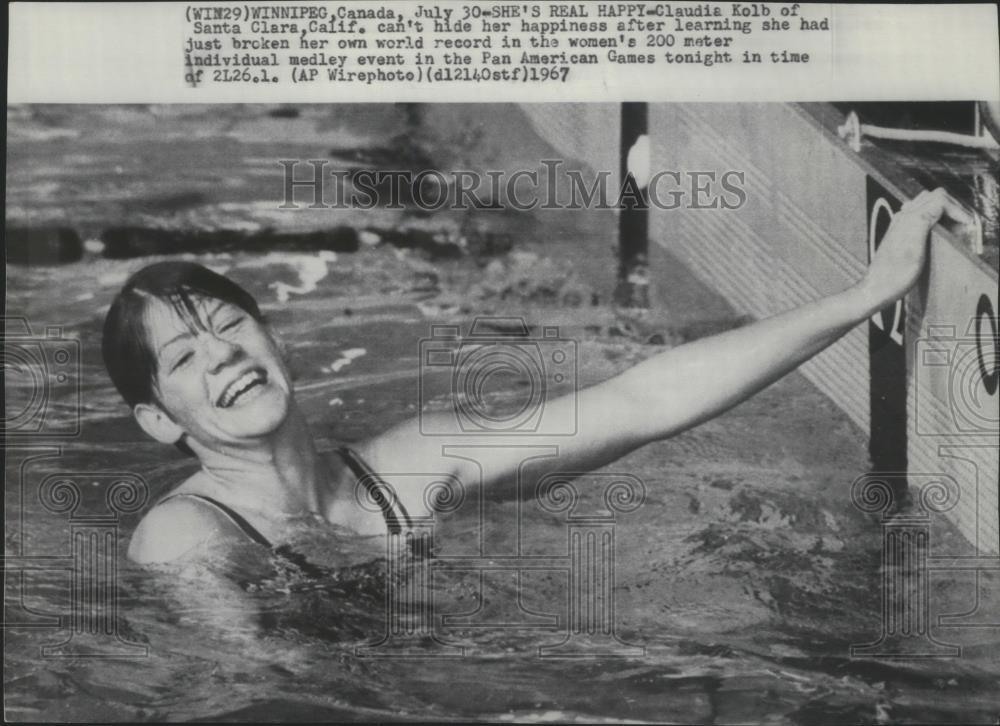 1967 Press Photo Swimming champ, Claudia Kolb, breaks own record in PanAm Games